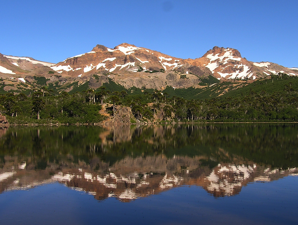 Laguna La Mula